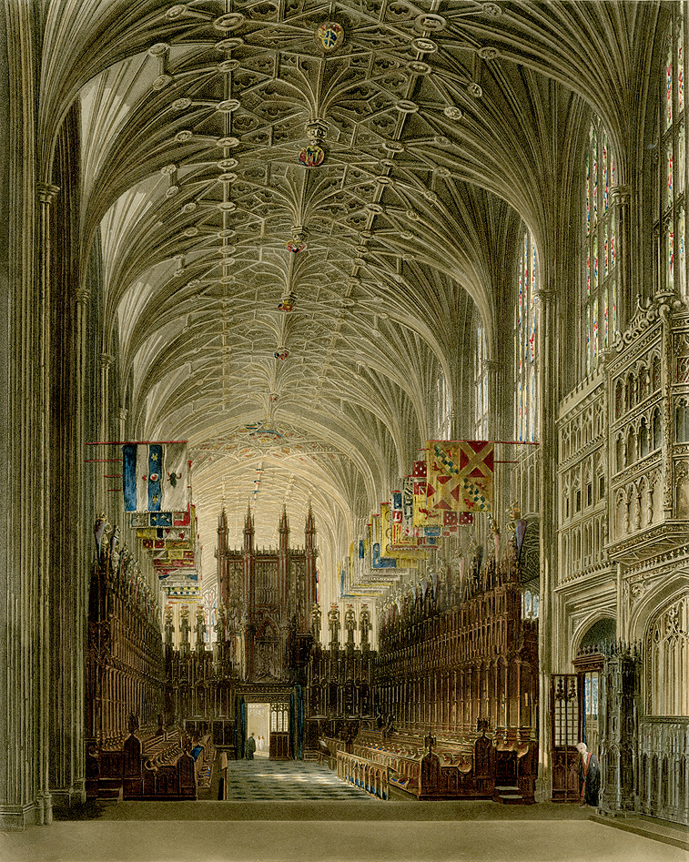 A view of the St George's Chapel, Windsor Castle, from the Altar